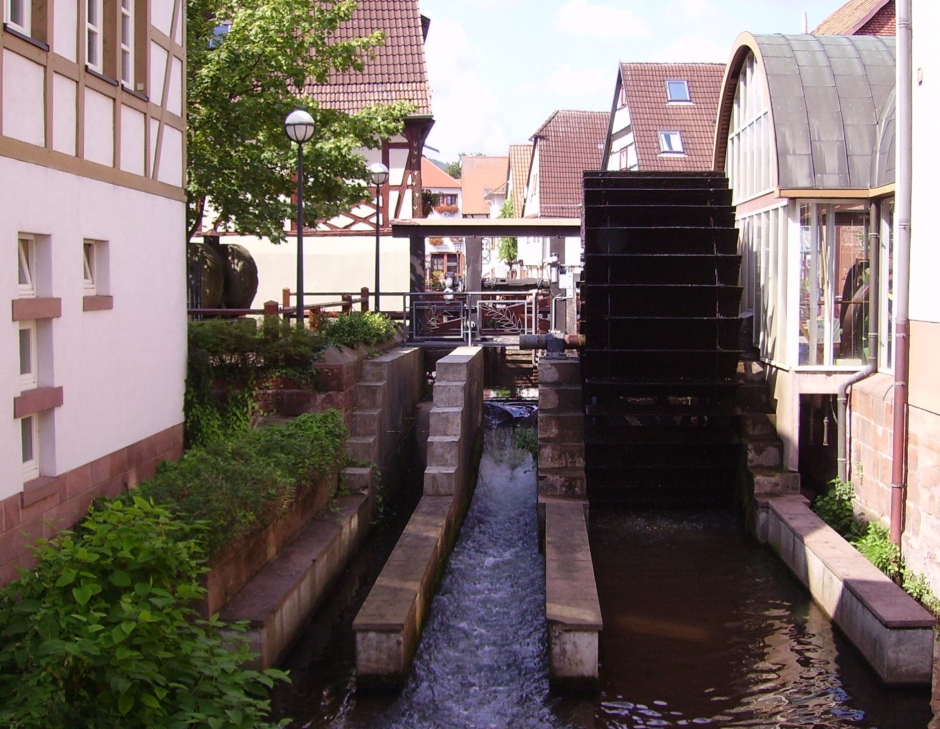 view of Annweiler, Germany